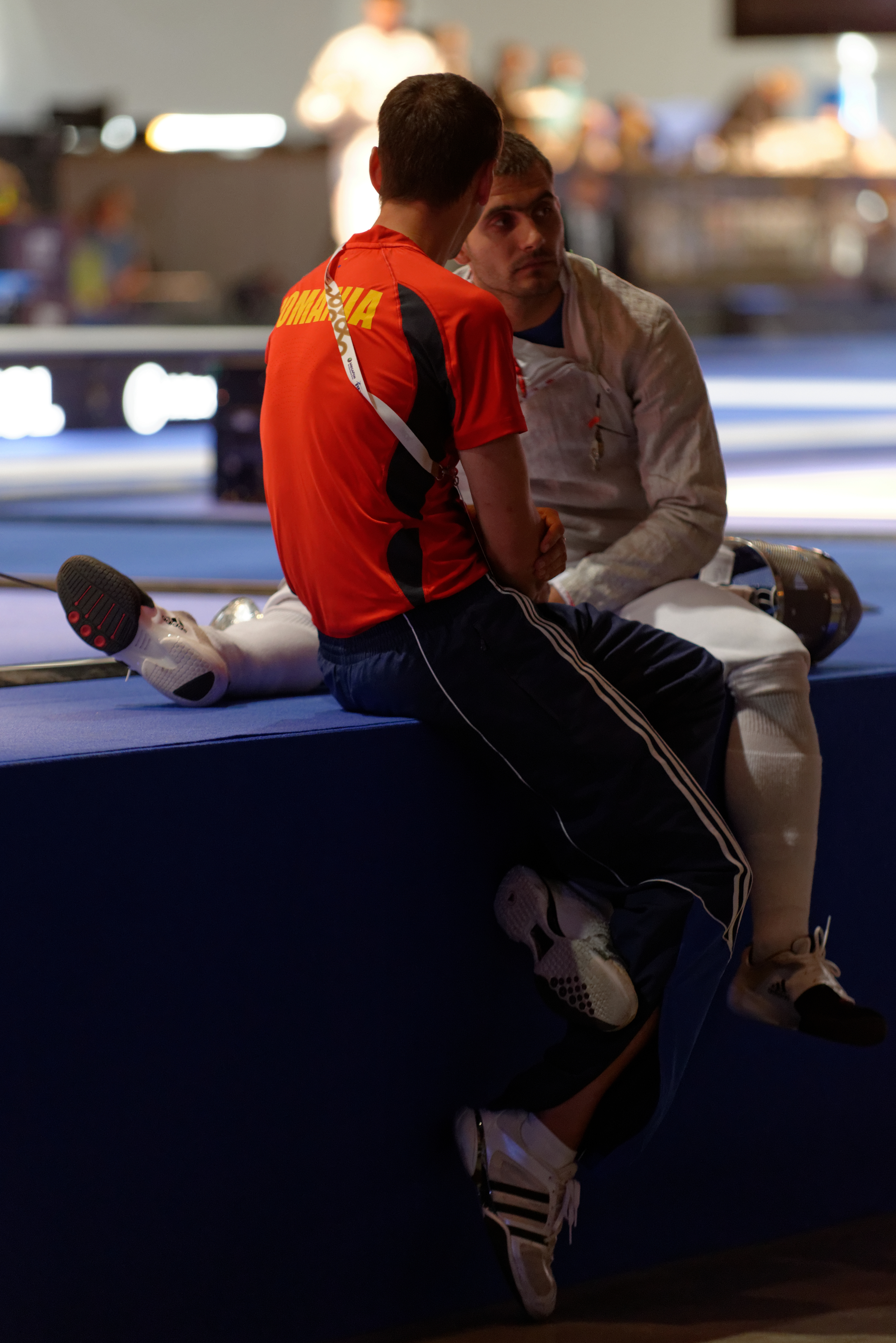 Romania's head coach Mihai Covaliu gives advice to Tiberiu Dolniceanu during his bout against Ukraine's Dmytro Boyko in the men's sabre round of 32 of the 2013 World Fencing Championships at Syma Hall in Budapest, 7 August 2013.